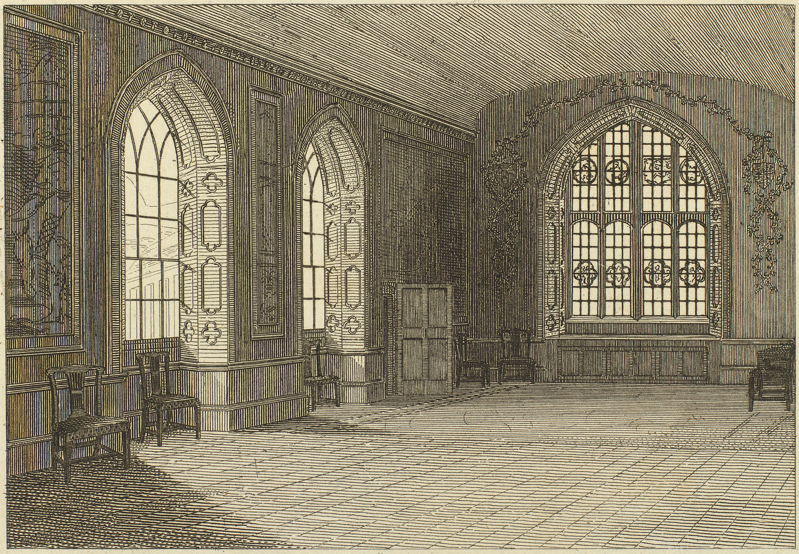 Interior of the Jerusalem Chamber cropped